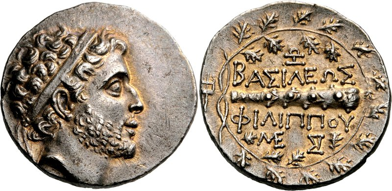 KINGS of MACEDON. Philip V. 221-179 BC. Didrachm (Silver, 8.50 g 10), Pella, Ca. 184-179. Diademed head of Philip V to right Rev. ΒΑΣΙΛΕΩΣ ΦΙΛΙΠΠΟΥ Club with one monogram above and two below; all within oak wreath; to left, trident upwards.